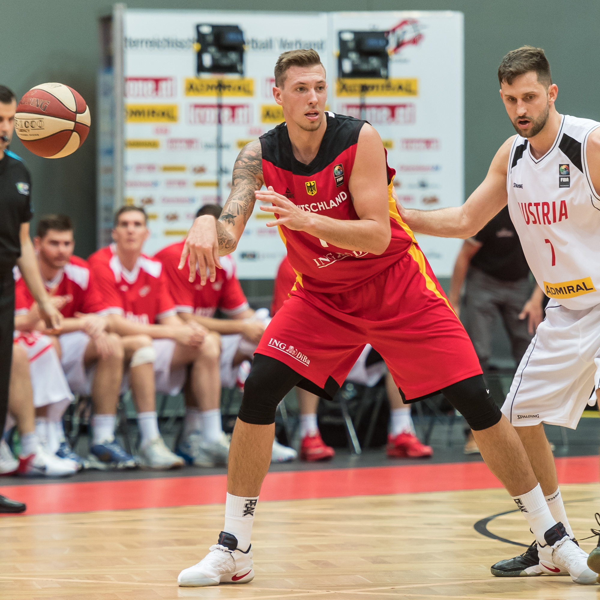 EuroBasket 2017 Qualification Austria vs Germany, Schwechat, Lower Austria, 2016-09-03.